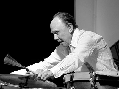 Sven-Åke Johansson in concert. (Aarhus, Denmark)